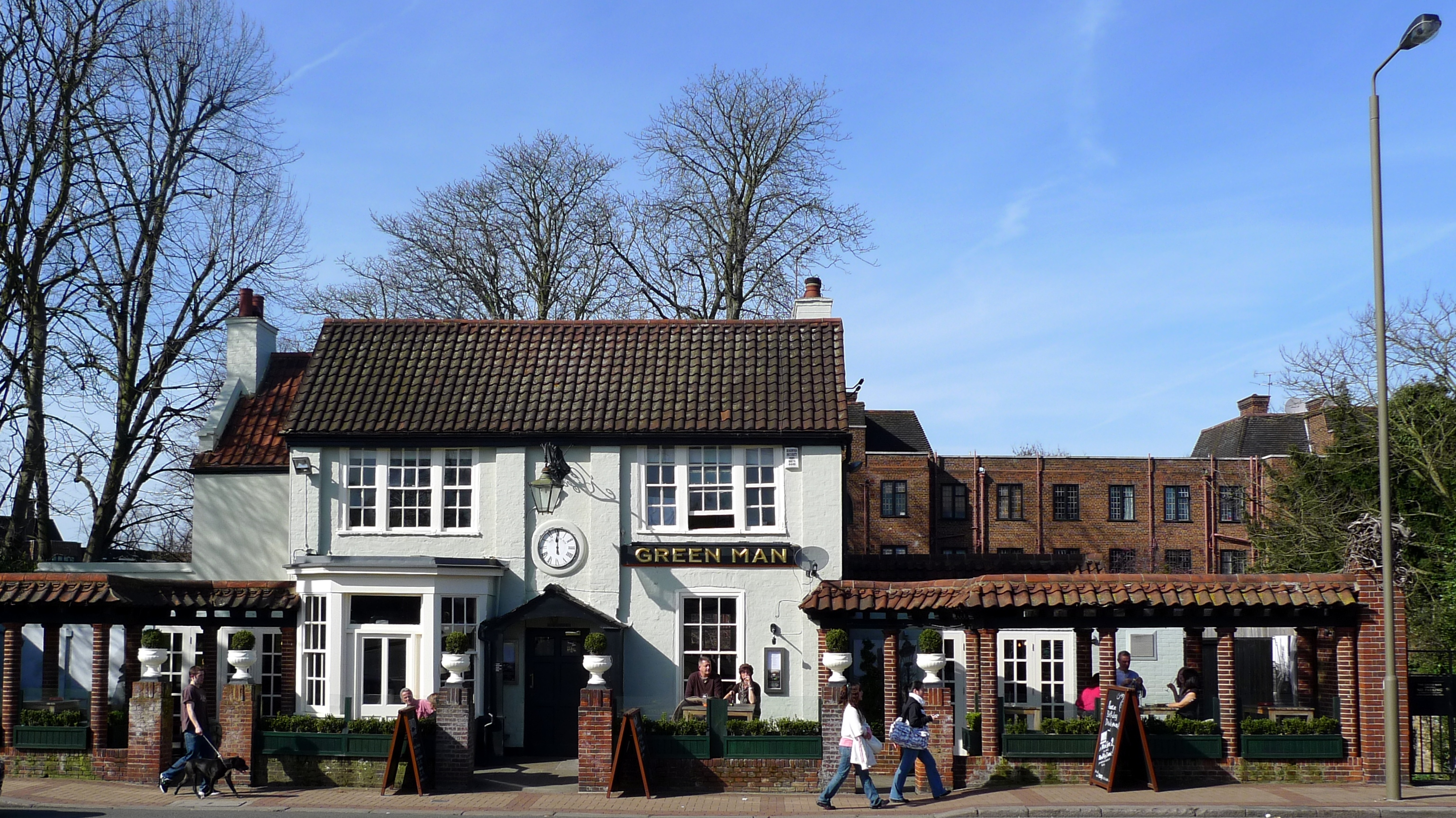 This is as good a Young's pub as any these days. Lots of outdoor seating when it's sunny, and a cosy interior too. The food menu wasn't extensive, but what I had was nice (goat's cheese and beetroot salad). Address: Wildcroft Road. Owner: Young's (website). Links: Randomness Guide to London Fancyapint Beer in the Evening